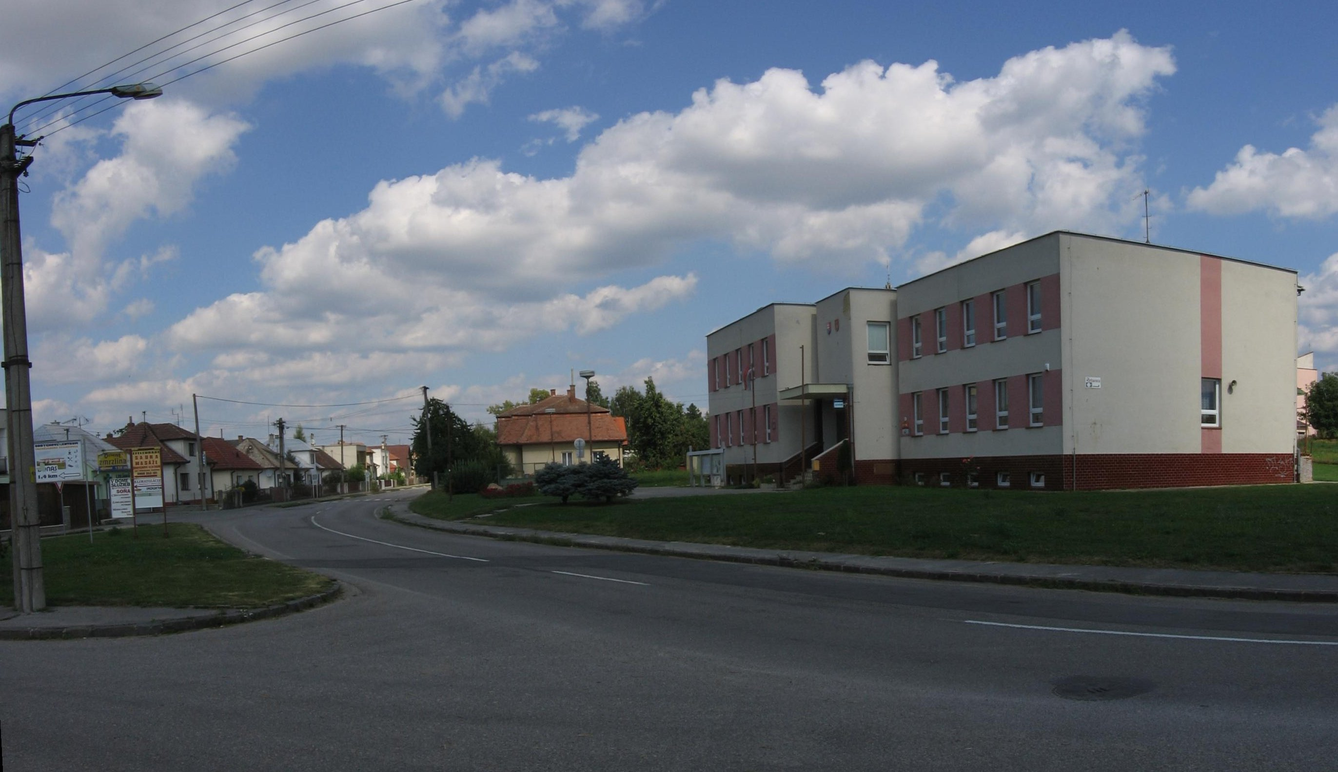 Crossroad in Trenčianske Stankovce, Trenčín district, Western Slovakia. Bulding in the right is the Local Authority office.